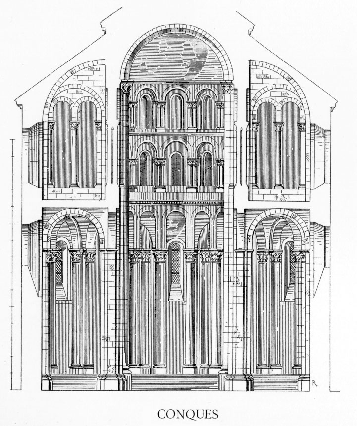 Abbatiale Sainte-Foy de Conques, cross section